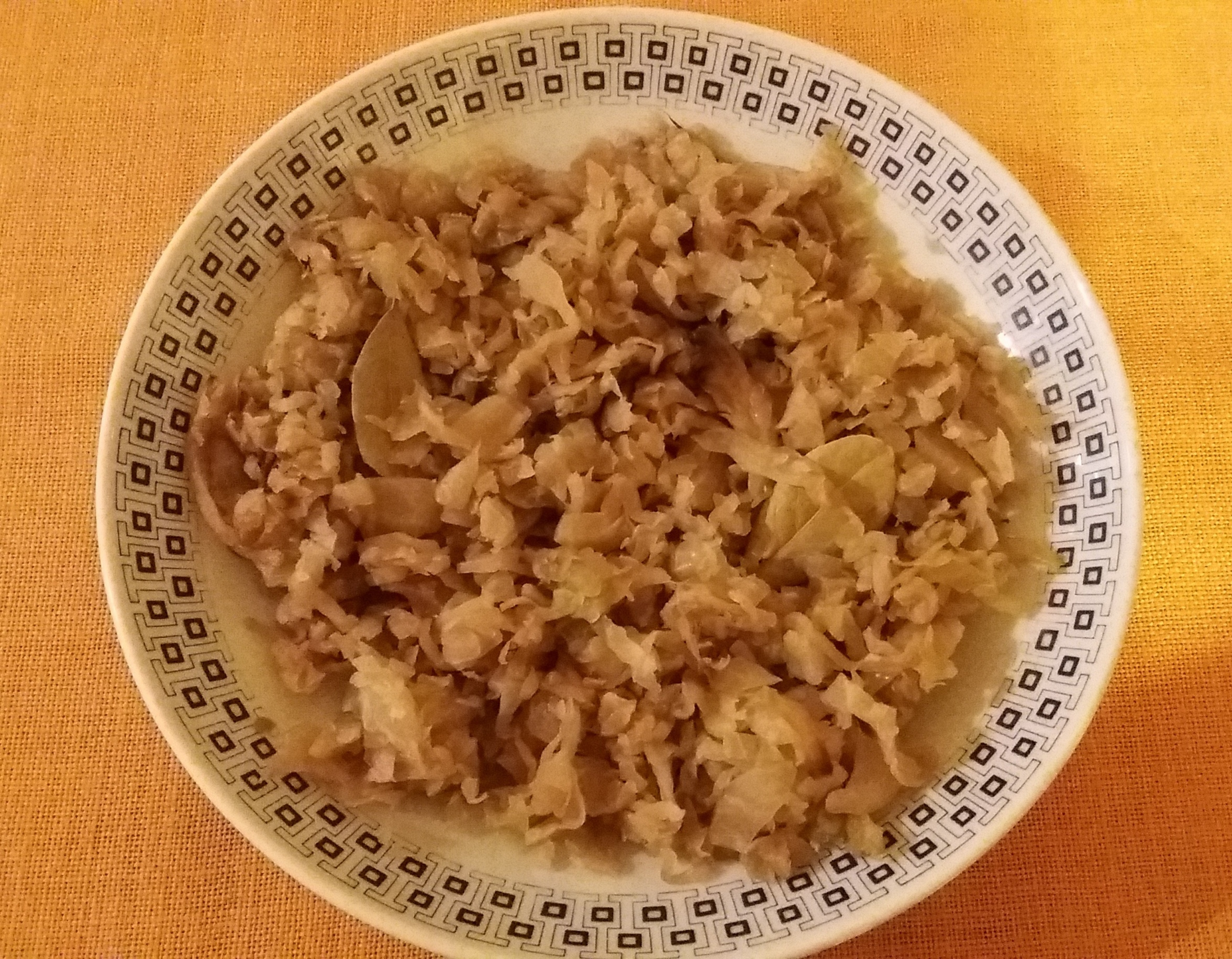 Podvarak - serbian national dish